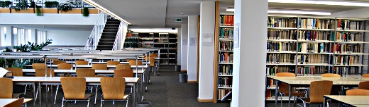 Könyvtár